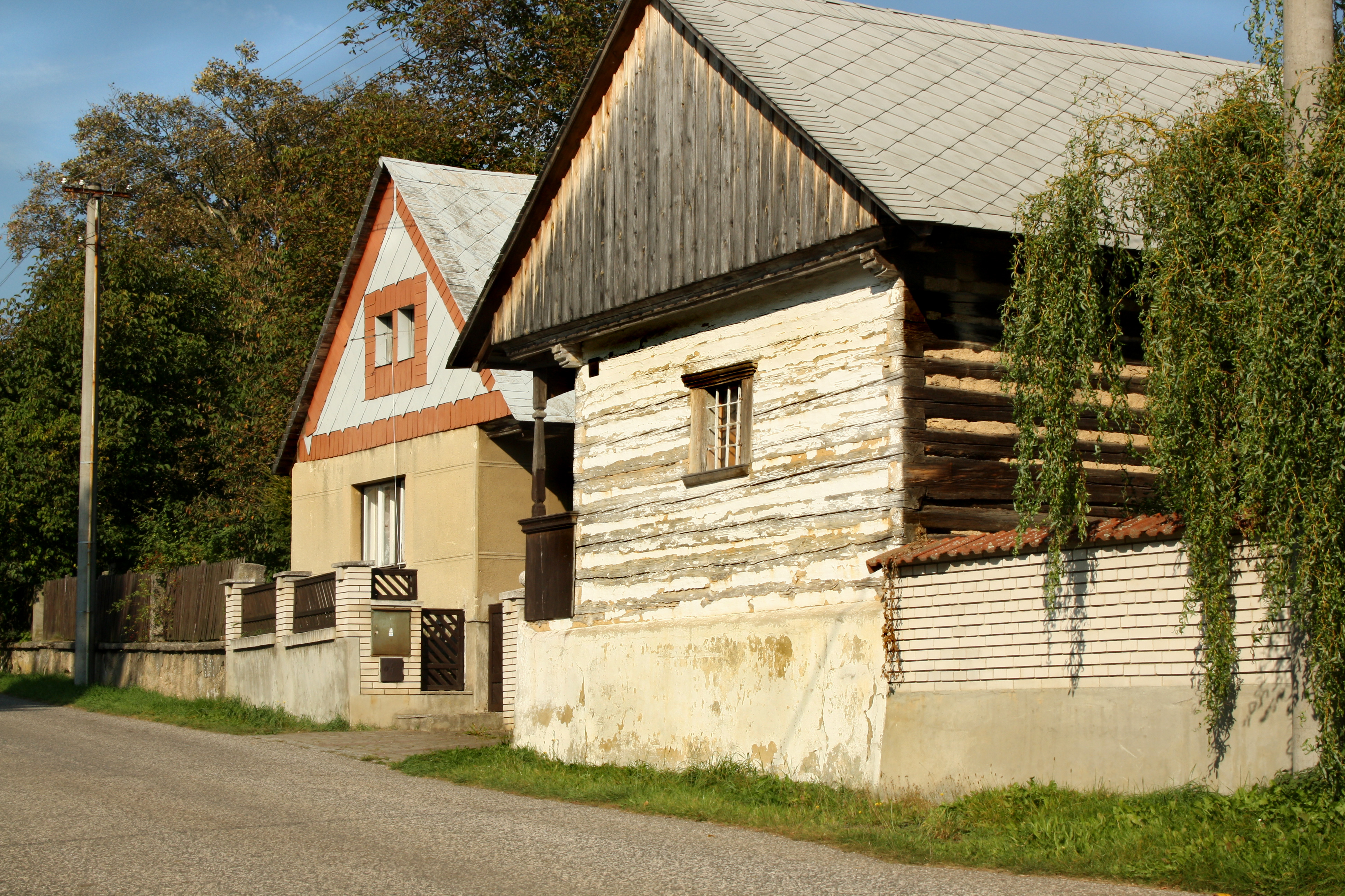 West part of Malobratřice, part of Kněžmost, Czech Republic